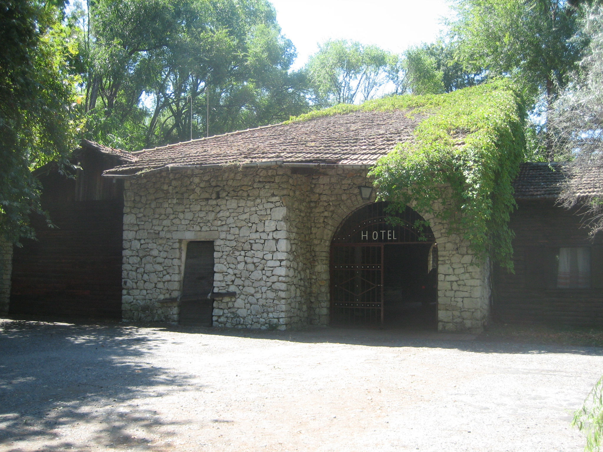 Main entry of the Hoteli i Gjuetisë, a hotel in Ishull i Lezhës, Lezhë, Albania.